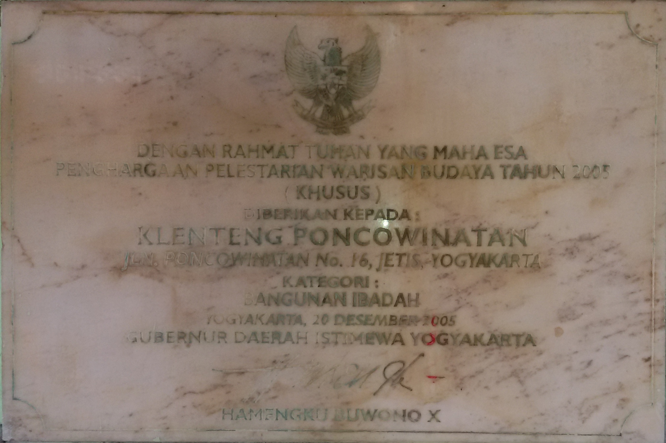 The inscription of 2005 cultural heritage for Tjen Ling Kiong temple